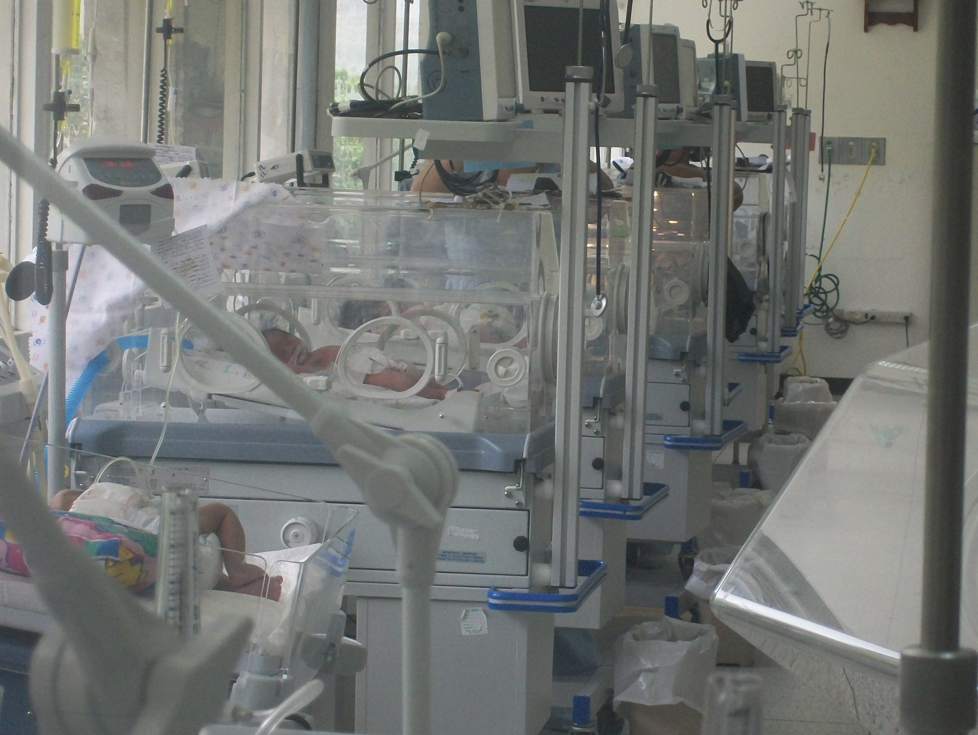 Neonatal intensive-care unit in Hospital Central de Maracay, Venezuela.